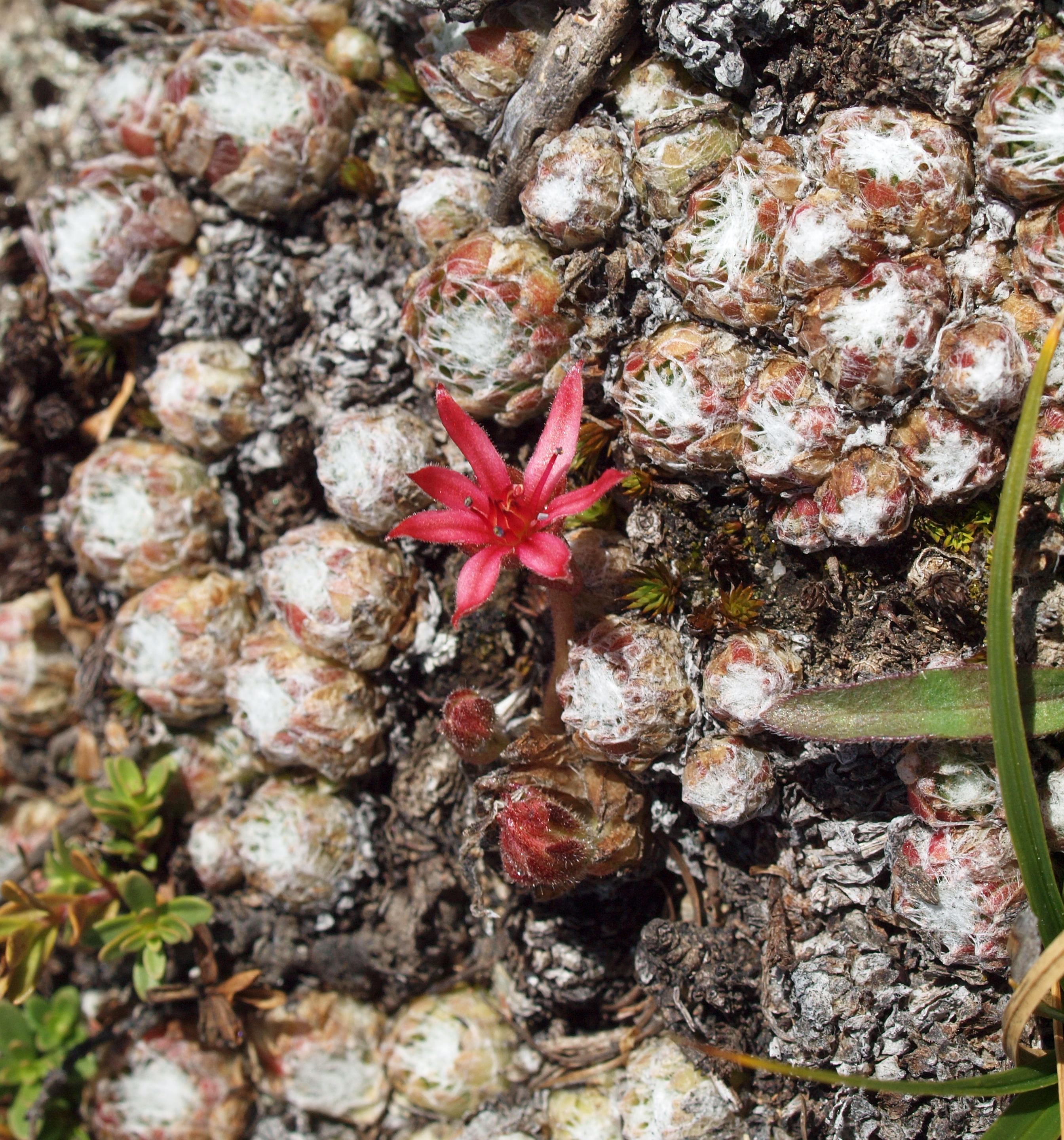 Sempervivum arachnoideum ssp. tomentosum, Switzerland, Valais, Saas Valley, near Stalden, about 2150 m